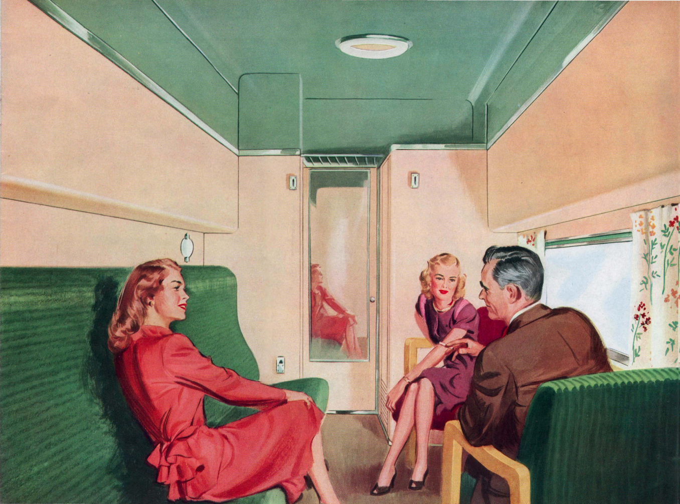 Artist's conception of the Dream Cloud sleeping car from a promotional brochure distributed by General Motors describing the Train of Tomorrow, a demonstrator built by GM and Pullman-Standard.